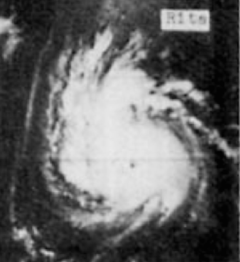 Super Typhoon Rita 450 nautical miles west of the Mariana Islands as it was intensifying